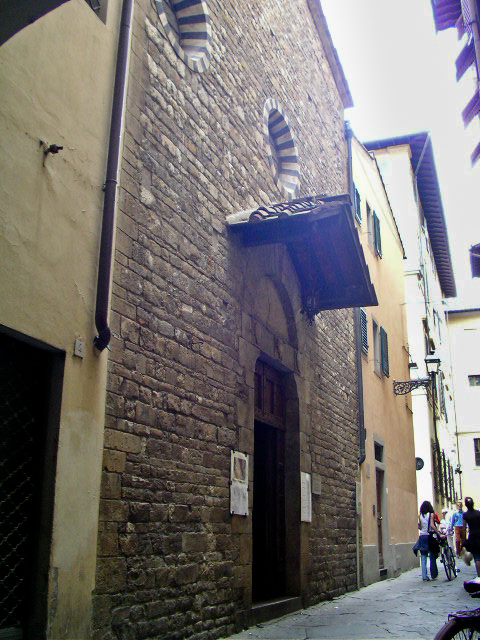 Santa Margherita de' Cerchi church facade in Florence, Italy